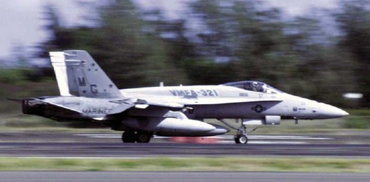 A McDonnell Douglas F/A-18A Hornet of U.S. Marine Corps Reserve fighter-bomber squadron VMFA-321 Hell´s Angels in 2004. VMFA-321 was deactivated on 11 September 2004.